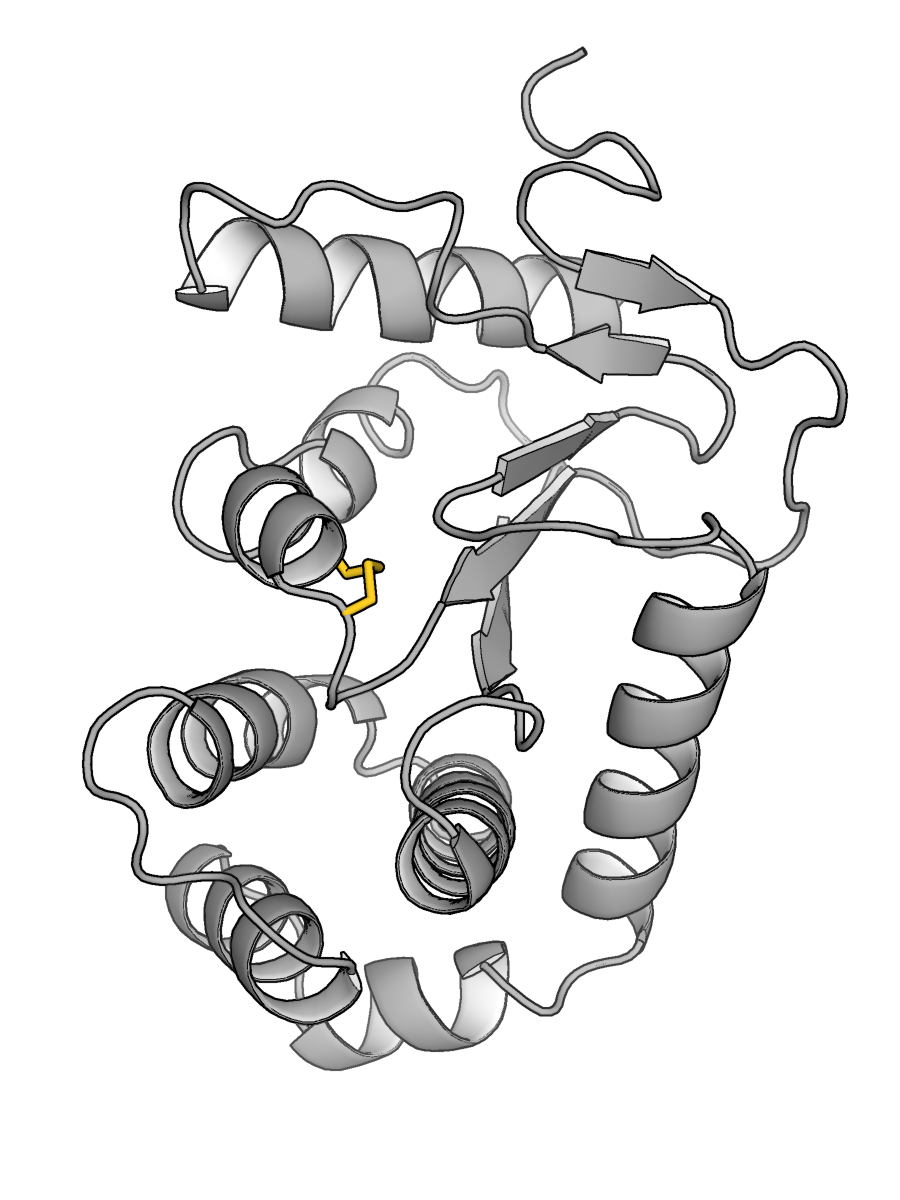 Crystal structure of oxidized DsbA from E. coli. The catalytic disulfide is colored gold. Drawn from 1A2M using PyMOL